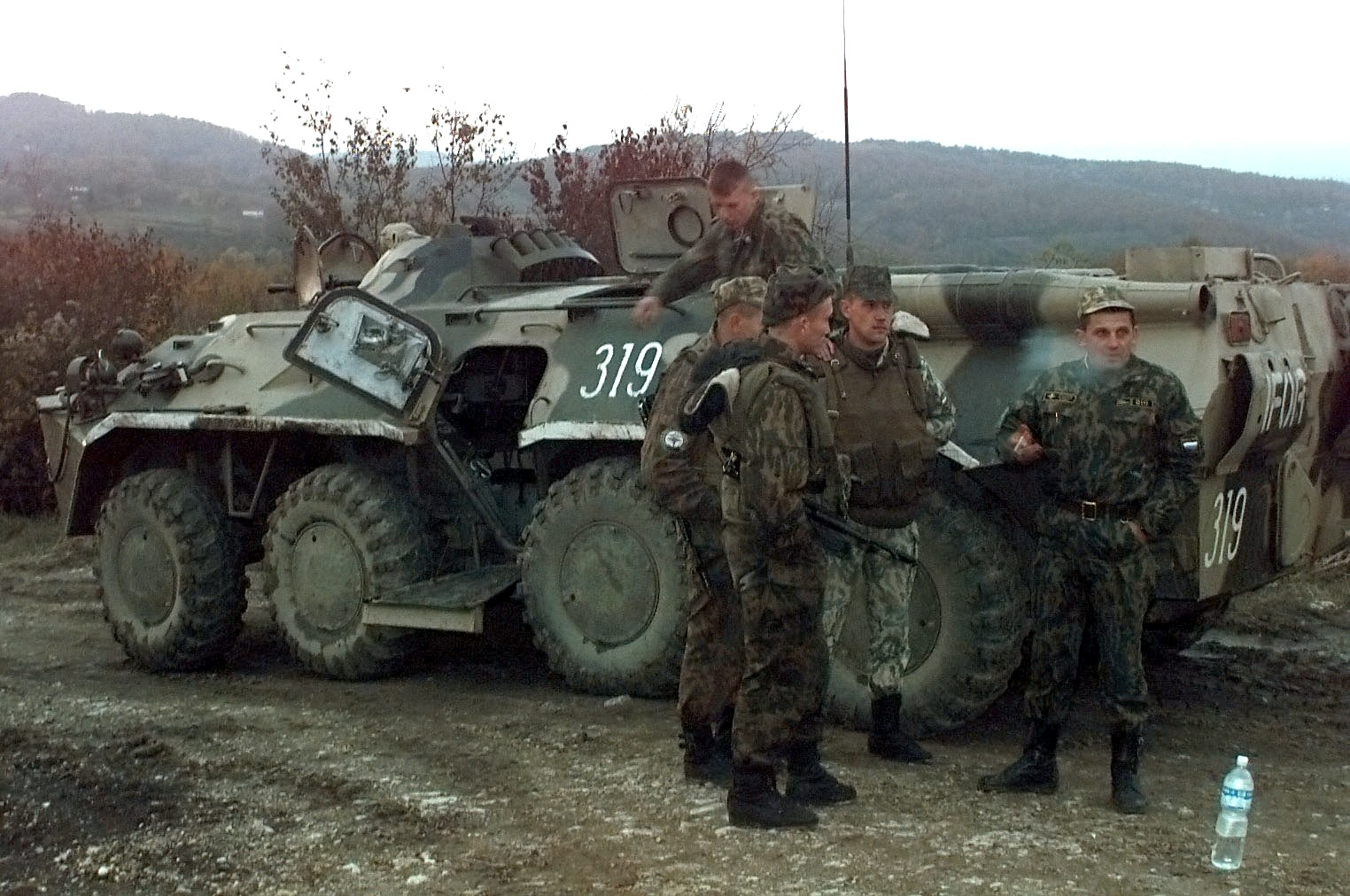 Sourced from: Details: ID: DDSD0000480 Service Depicted: Other Service 961101A7433C013 Operation / Series: JOINT ENDEAVOR Armed, Russian Army soldiers stand on and next to their IFOR marked BTR-80 Armored Personnel Carrier (APC) smoking and taking a break while on patrol in a Russian Sector area near Ugljevik, Bosnia-Herzegovina. The Russians are in Bosnia participating in Operation Joint Endeavor, which is a peacekeeping effort by a multinational Implementation Force (IFOR), comprised of NATO and non-NATO military forces, deployed to Bosnia in support of the Dayton Peace Accords. Camera Operator: SPC ALEJANDRO CABELLO Date Shot: 1 Nov 1996